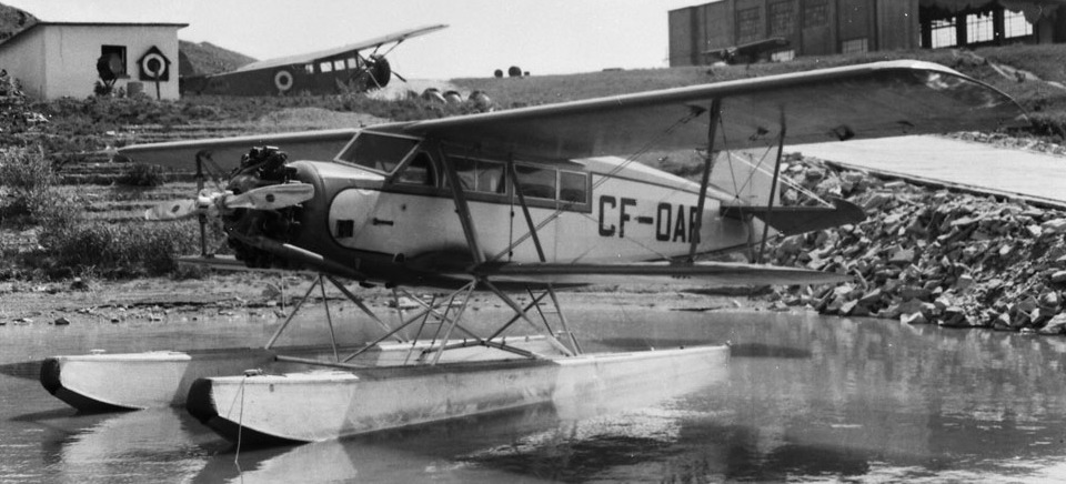 Buhl Airsedan CA-6M CF-OAR, Ontario Provincial Air Service, front port side